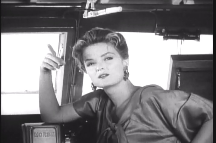 Actress Betsy Jones-Moreland in Creature from the Haunted Sea (Public Domain Film)